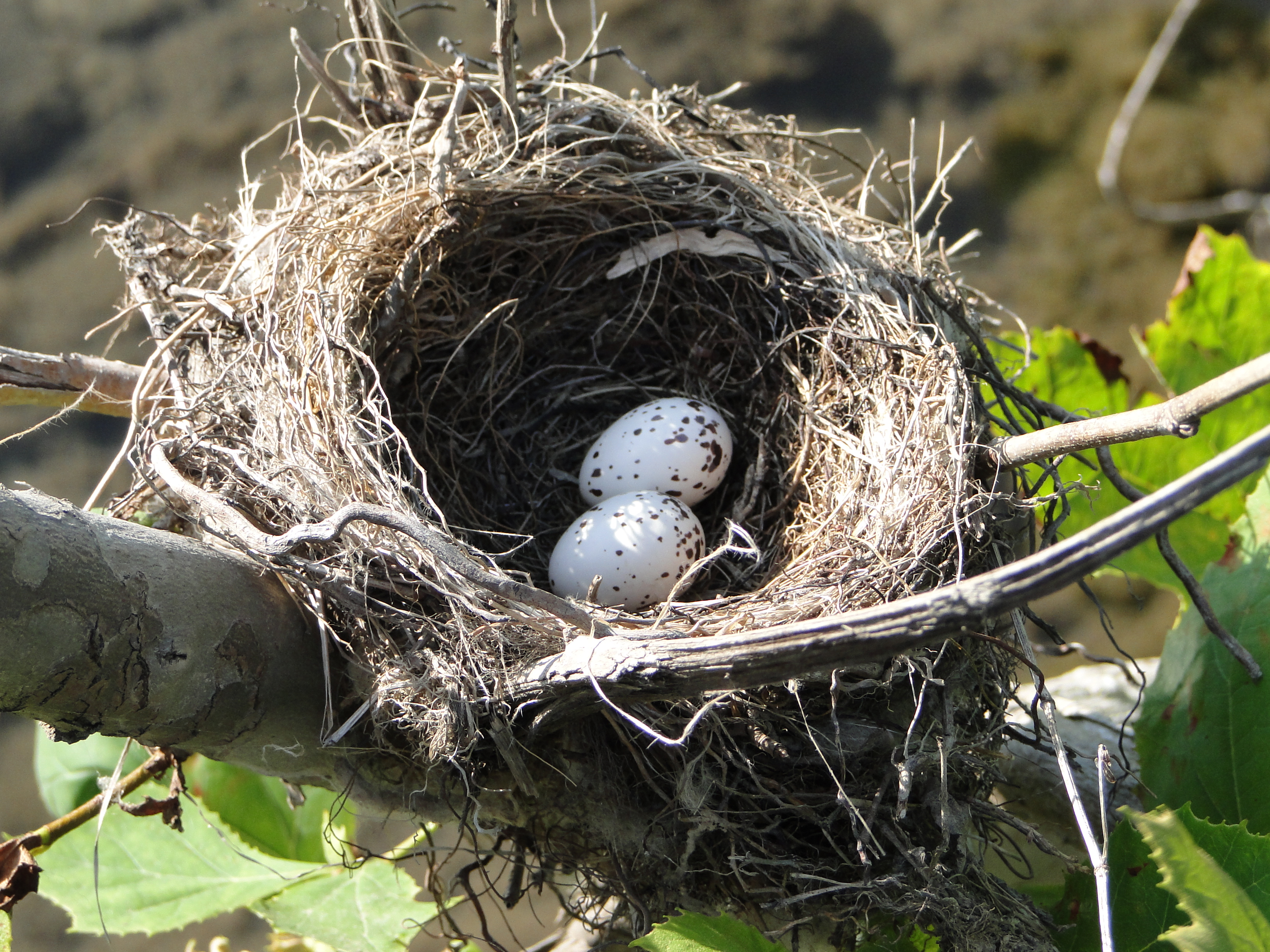 An Eastern Kingbird's nest and eggs. Taken at Green River, Egremont, MA